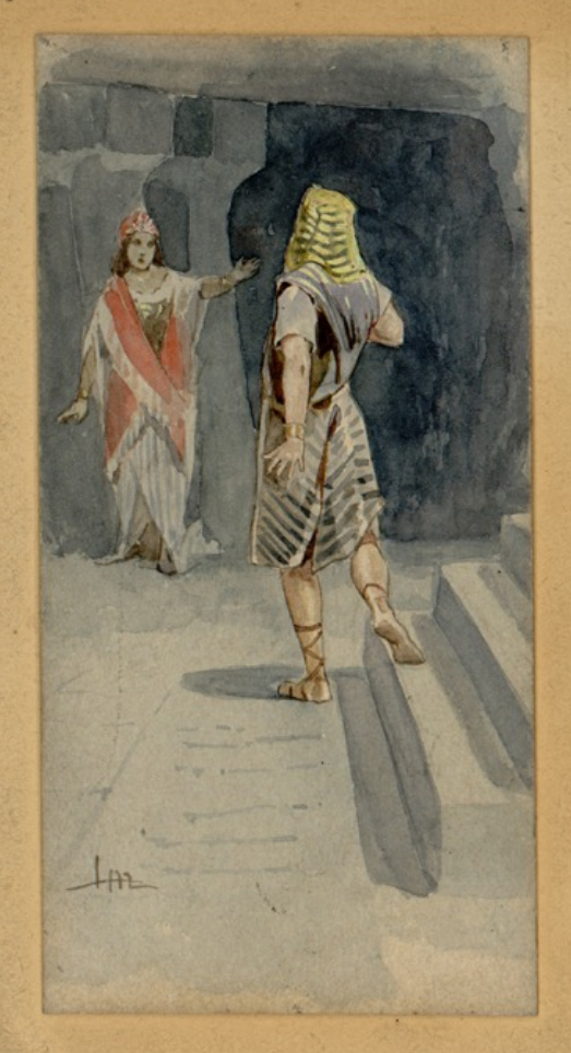 Drawing of Radames meeting Aida under the temple in Act IV scene 2 of Aida, as performed at the opera's European première at La Scala.